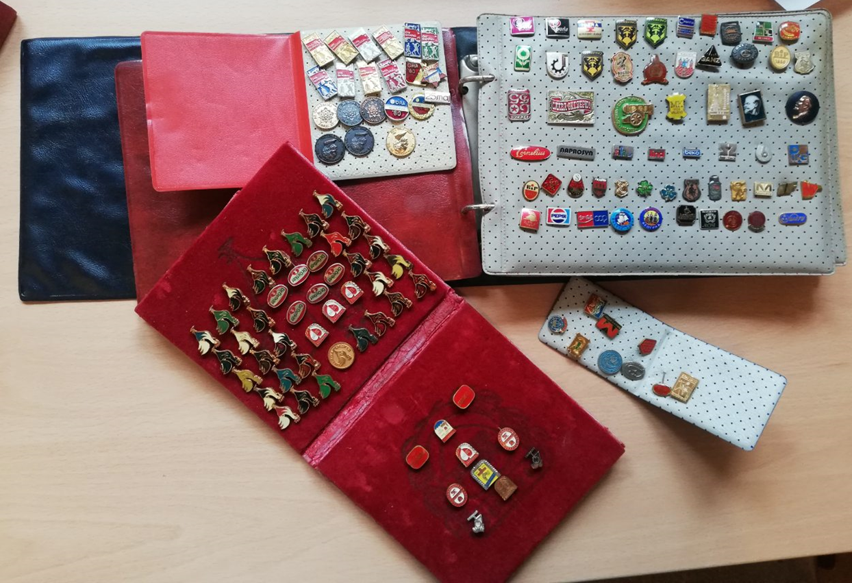 Badges and pins of Jordan Pešev in the Society for Culture, Art and International Cooperation Adligat in Belgrade, Serbia. Српски (ћирилица): Значке Јордана Пешева, адвоката, оца Божидара Пешева. Налазе се у Удружењу „Адлигат" у Београду